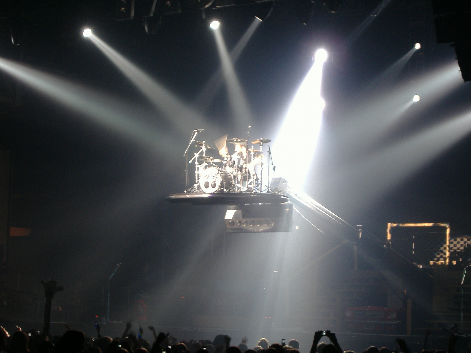 Harry Judd performs as part of McFly at Dublin's The Point in 2006.